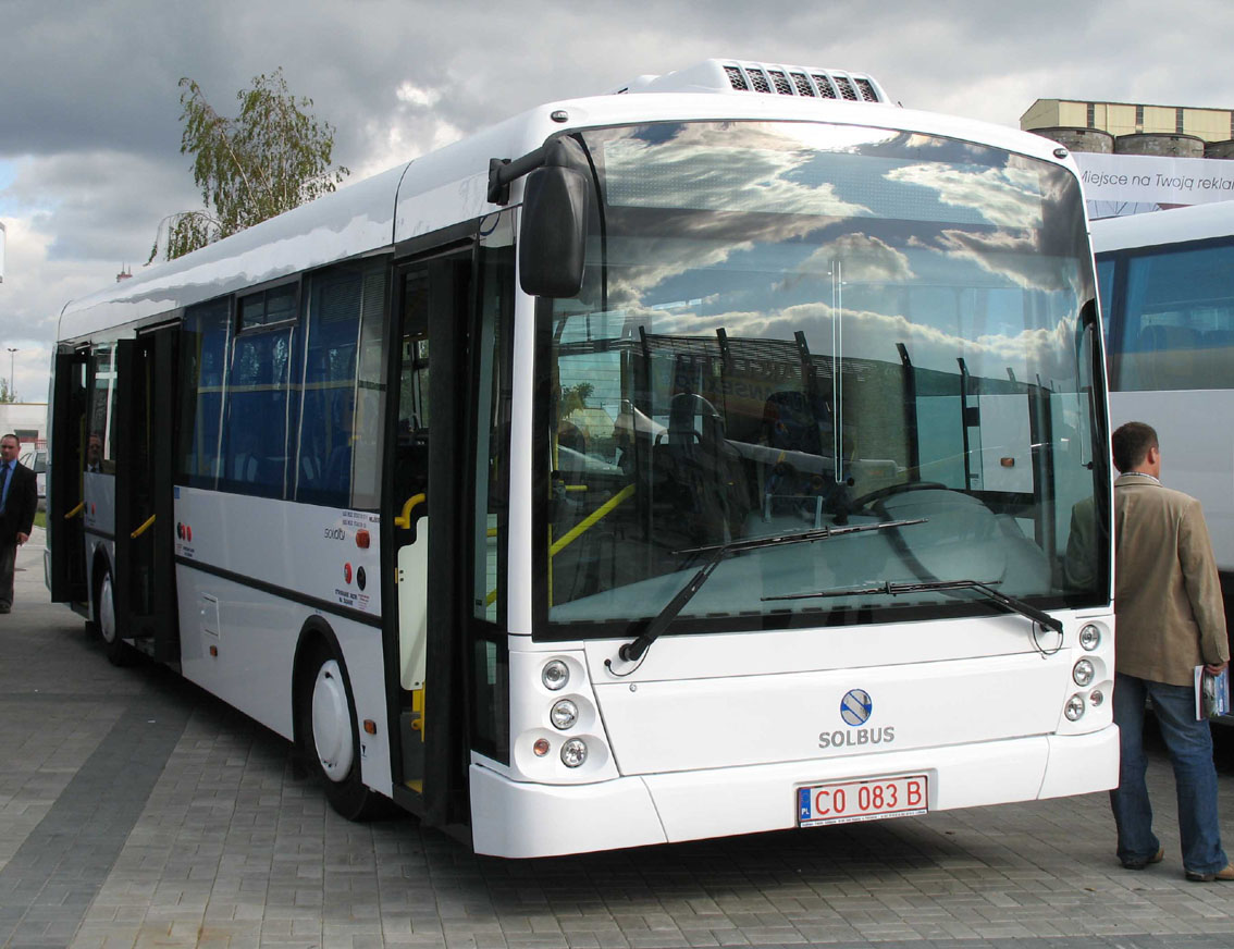 Solbus Solcity 11M bus (LE) in Kielce, Poland. Built 2007. Transexpo 2007.